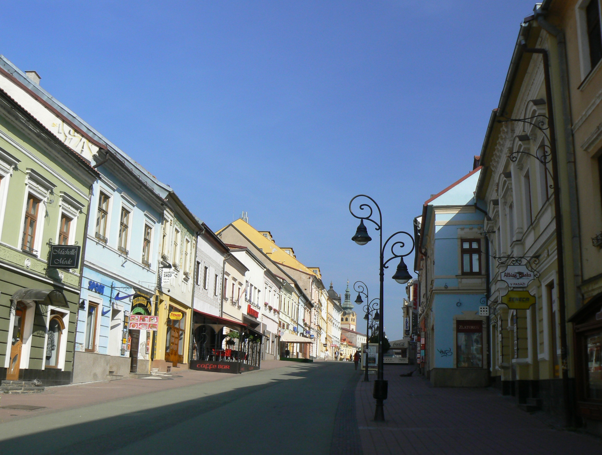 View from the centre of Banska Bystrica, Slovakia